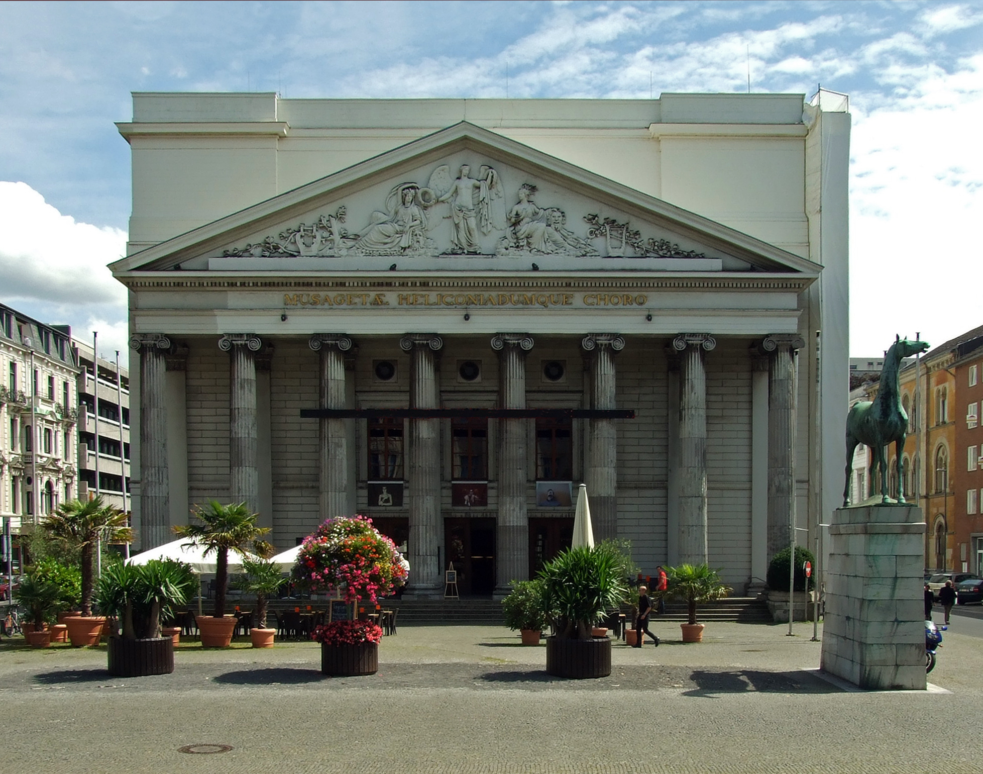 Theater building in Aachen, Germany